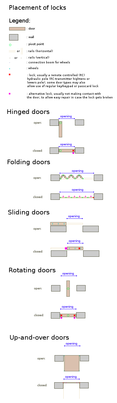 A schematic showing the placement of locks depending on the door type. Note that the placement of the alternative locks for the folding doors is only possible in case the doors are rigid (non-flexible); not also that the alternative locks for the up-and-over doors are composed of 2 RC hydraulic poles for the lower locks, and 2 RC winched poles for the upper locks